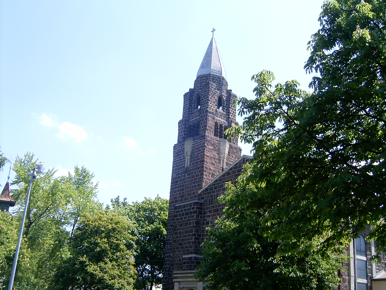 Győr. Mátyás square. Roman catholic church. Romantic style, built in 1929.